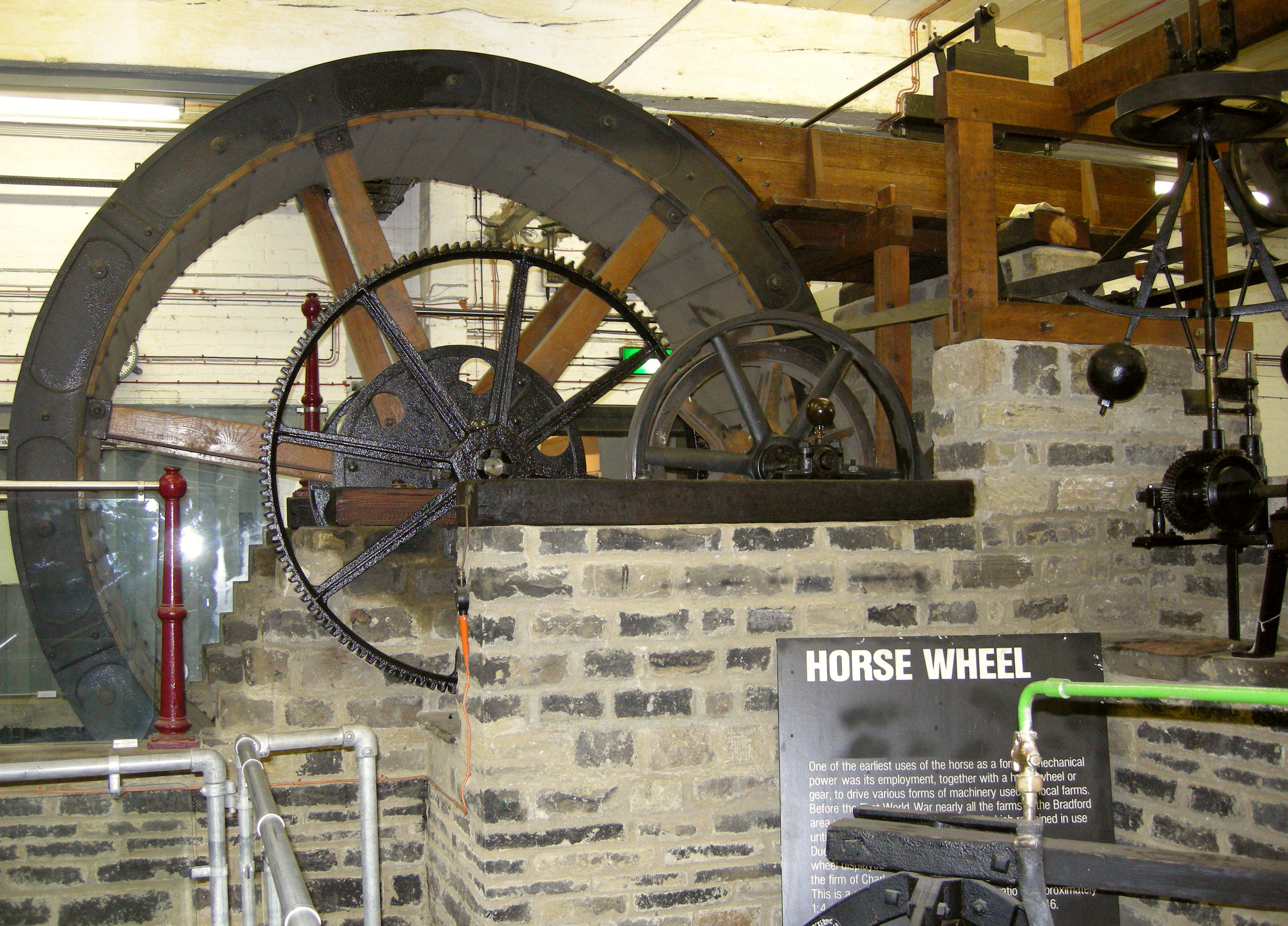 Water wheel (with horse wheel partly visible in front) in motive power room at Bradford Industrial Museum, Bradford, West Yorkshire, England. 53.48'.40".N; 1.43'.16".W.